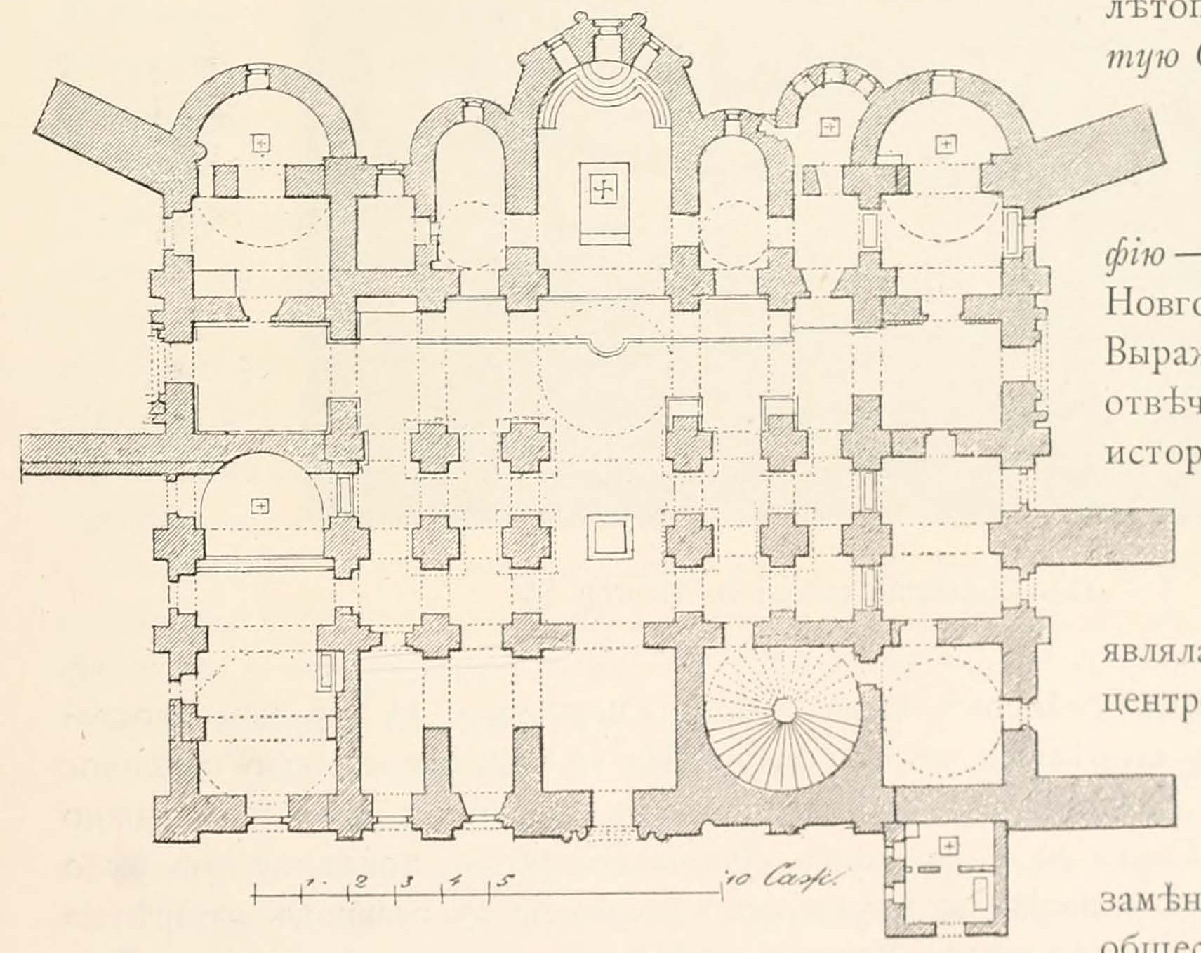 Floor plan of Sophia cathedral in Veliky Novgorod at the end of the 19th century.